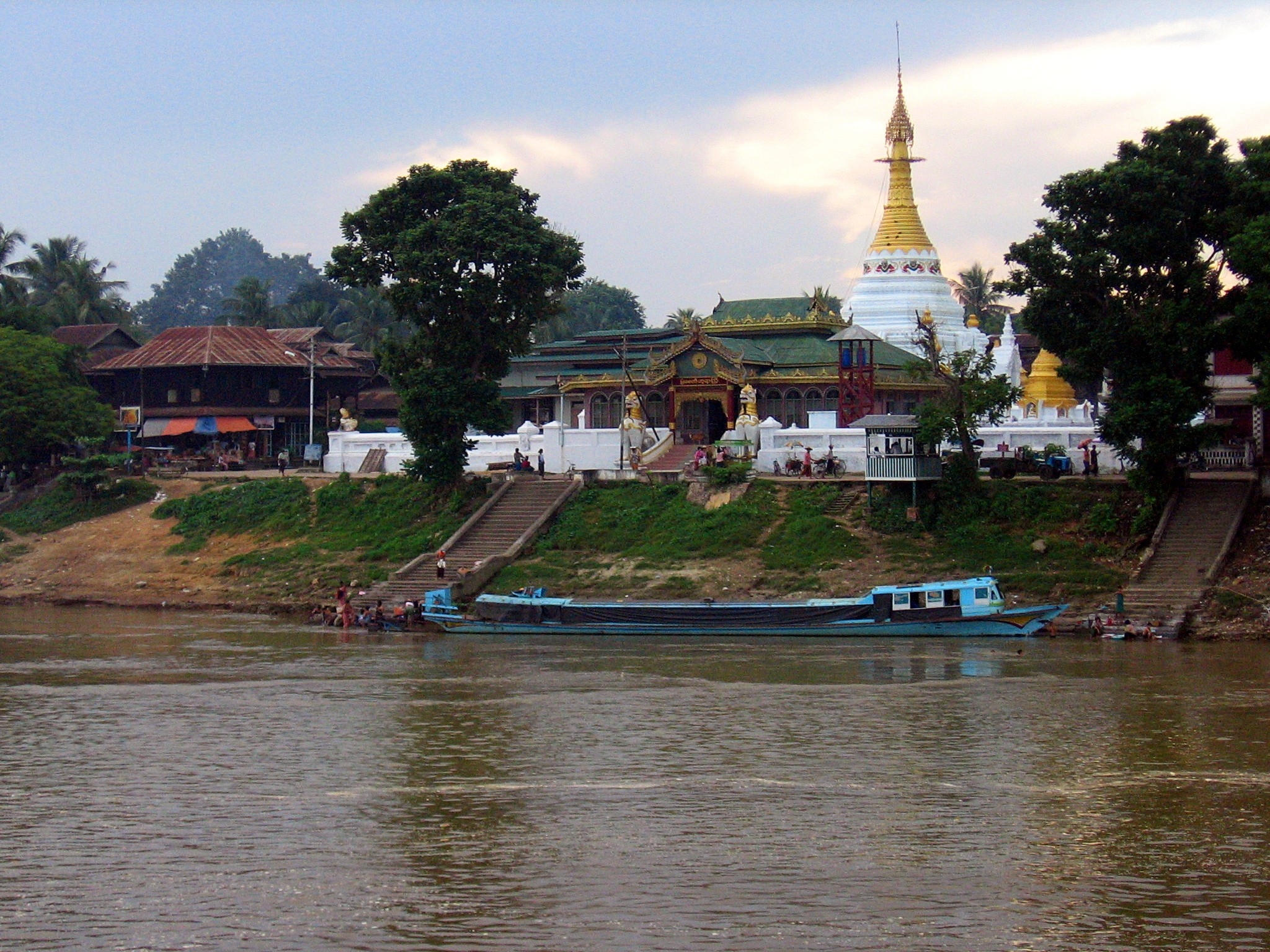 Khata, Myanmar from a boat in Ayeyarwady River.